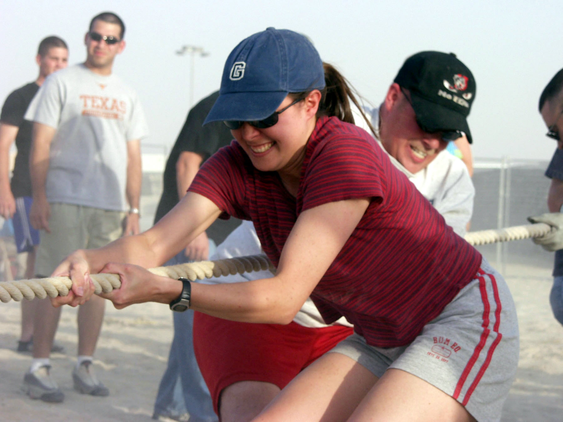 First Lt. Theresa Weihrich grimaces as she helps her 386th Expeditionary Communications Squadron teammates win a tug-of-war contest May 26 during the Iraqi Freedom Festival at a forward-deployed air base. Weihrich is deployed from Mountain Home Air Force Base, Idaho. The 386th Expeditionary Services Squadron sponsored the event that featured a variety of morale-boosting contests and activities for airmen, soldiers, sailors and Marines. (U.S. Air Force photo by Tech. Sgt. Dan Neely)